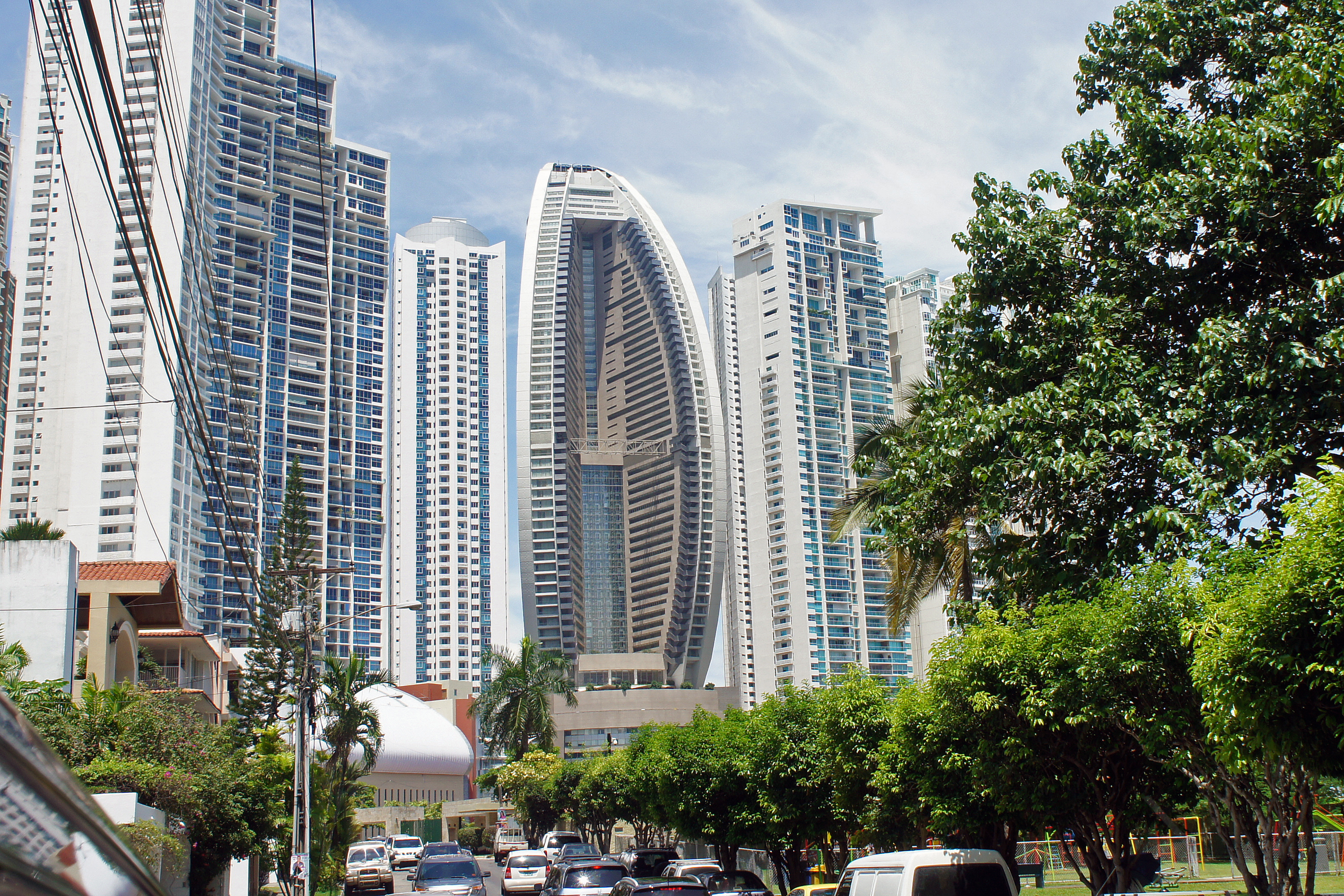 Trump Ocean Club International Hotel and Tower. Panama City, Panama.